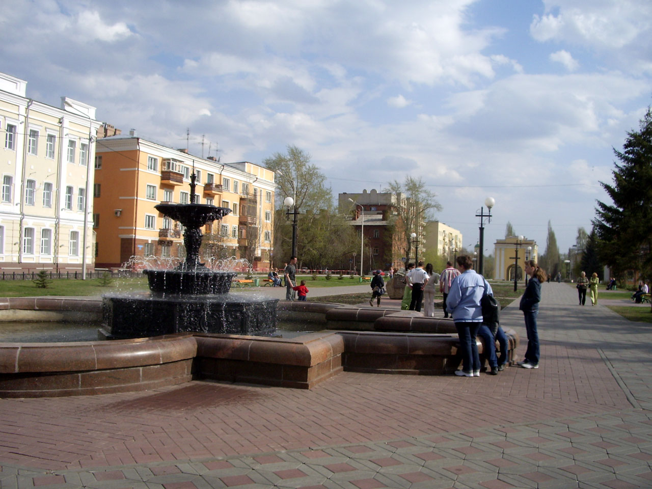 Tarskaya street, the historical centre of the Omsk city, Russia. In the background, are visible the Tarskiye (or Tara) gates (Тарские ворота), an arc that was part of the Omsk fortress. Dmitri Lebedev, 13.05.2006